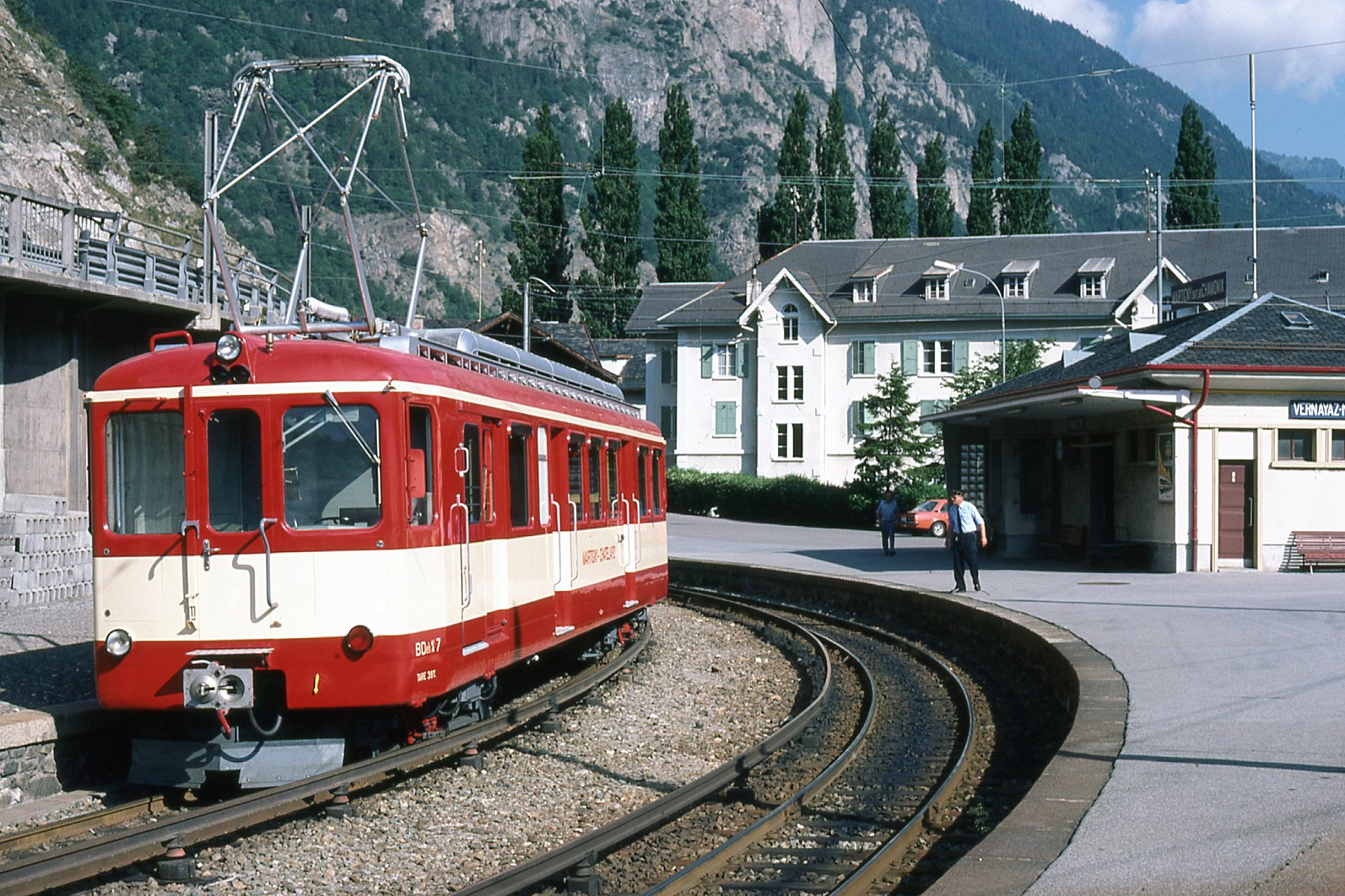 Photo: Trams aux Fils.